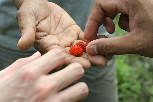 Wild Berries from Maninjau Rainforest, West Sumatra